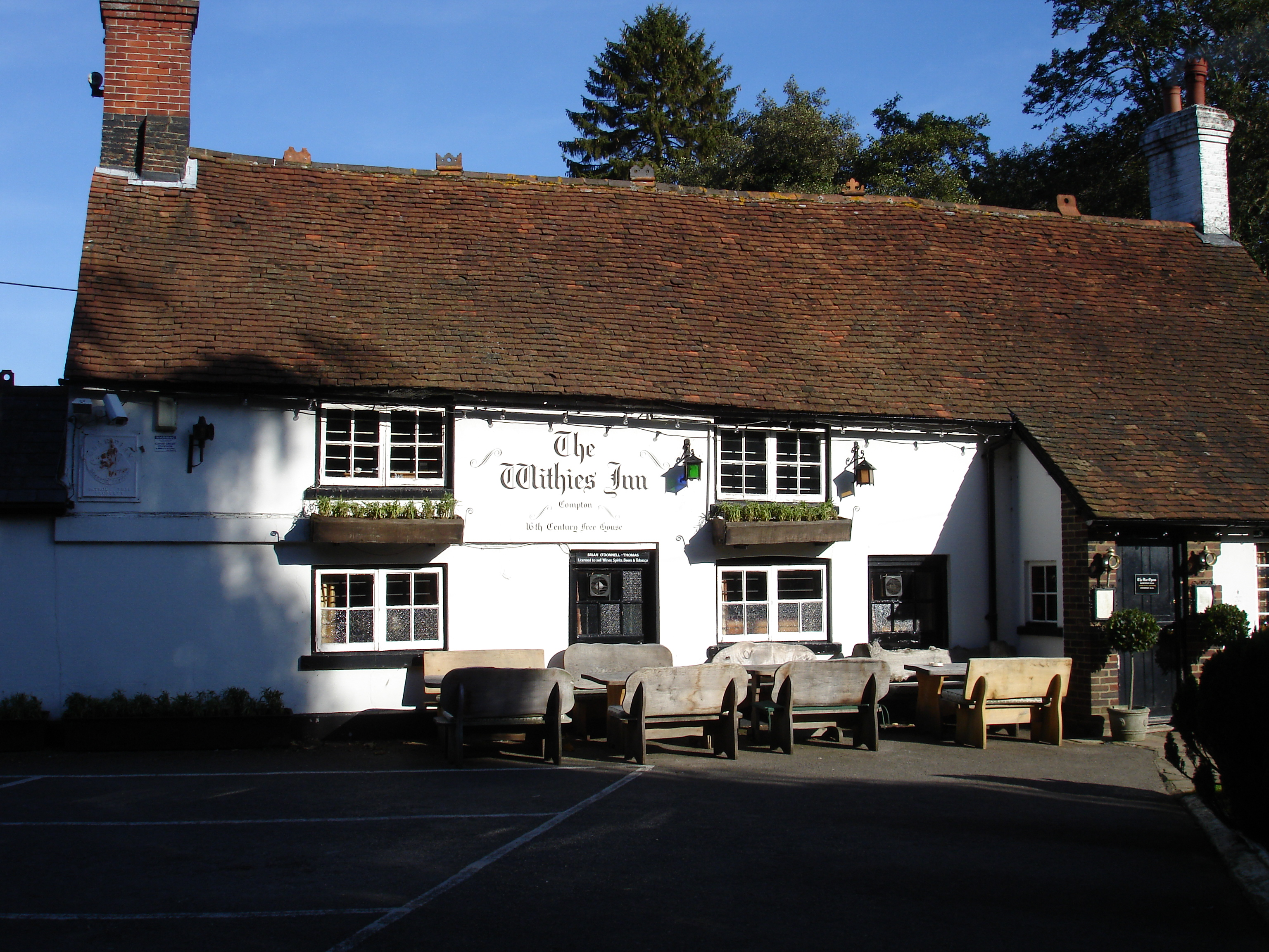 The Withies Inn, Compton, Surrey